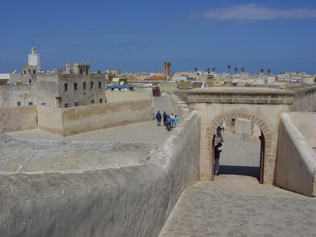 Fortress of El Jadida in Morocco